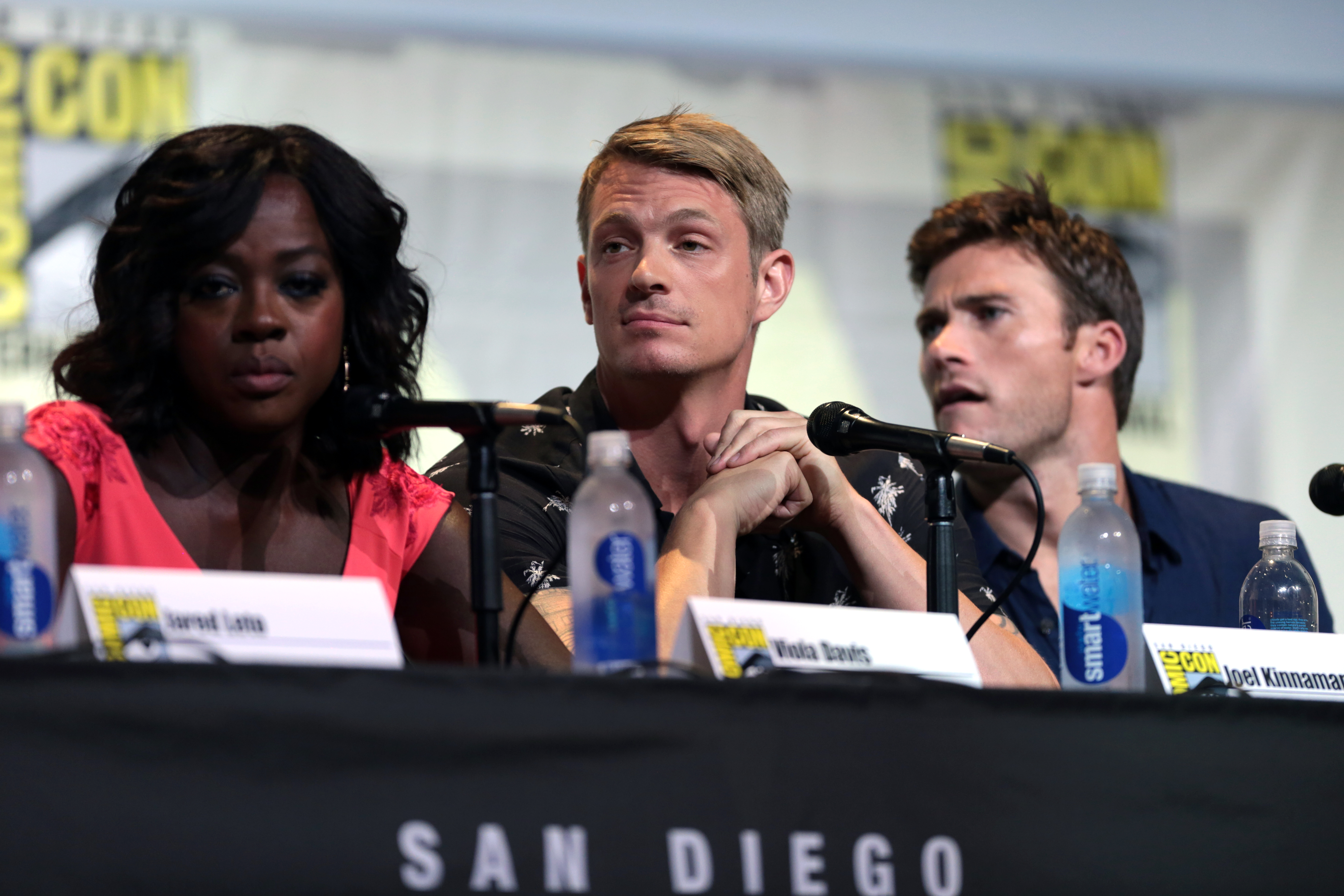 Viola Davis, Joel Kinnaman and Scott Eastwood speaking at the 2016 San Diego Comic Con International, for "Suicide Squad", at the San Diego Convention Center in San Diego, California.